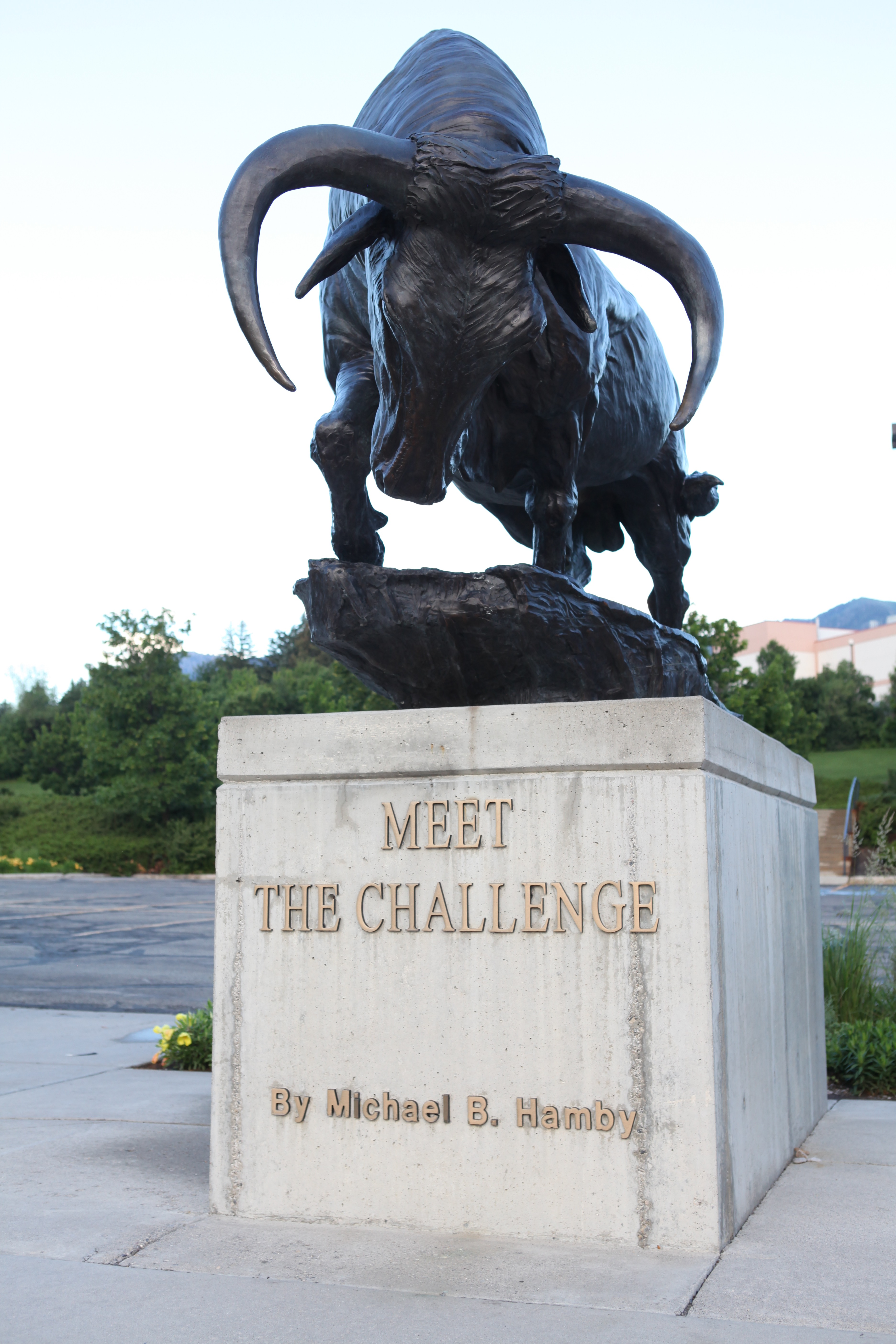 This is a photo of Utah State University's Meet the Challenge Statue